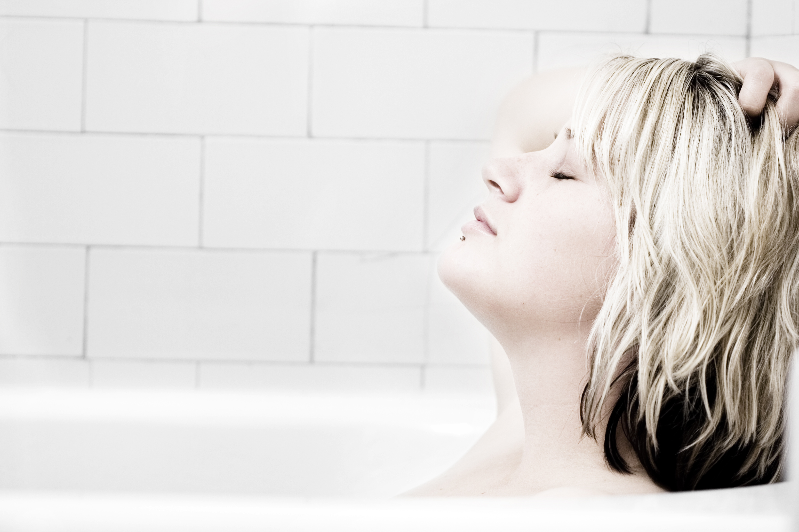 Bath Melancholy